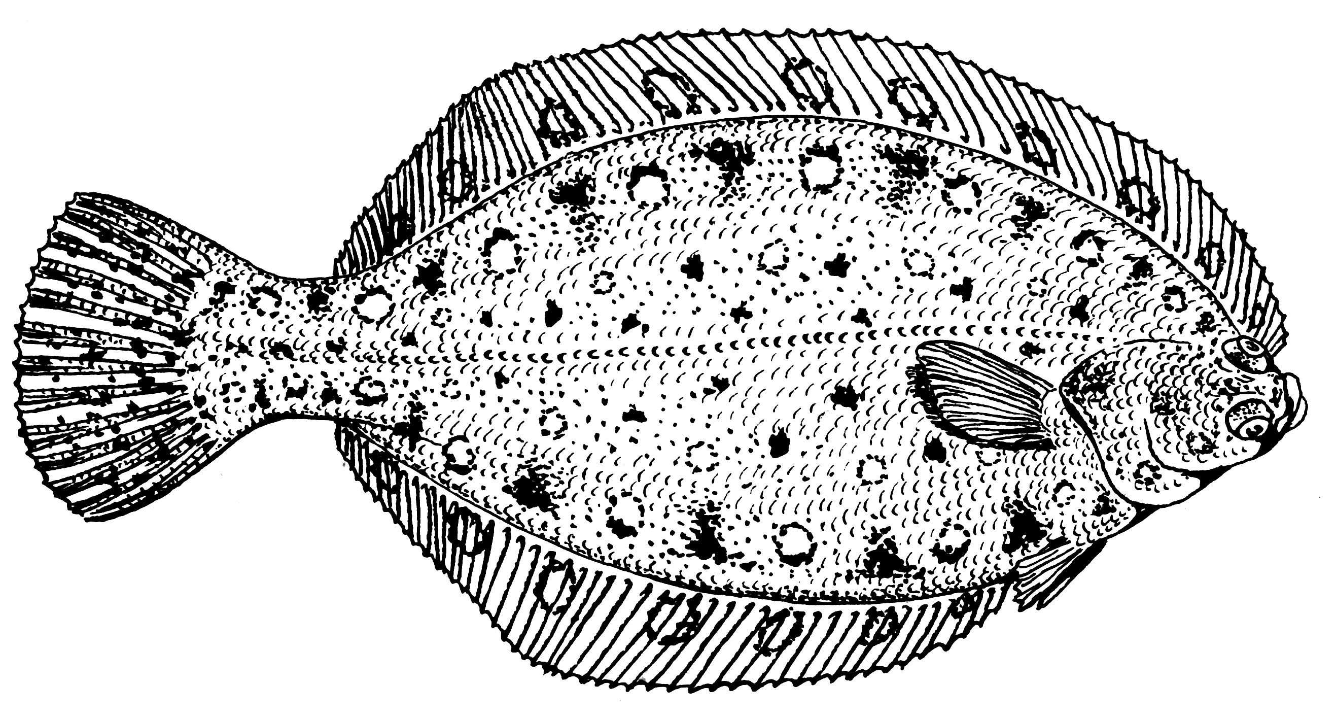 Flounder (species in genus Paralichthys, Platichthys, Pseudopleuronectes)